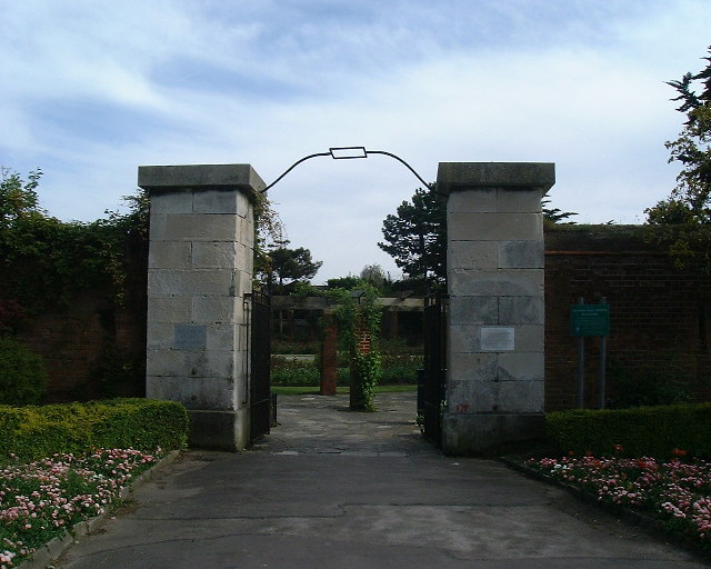 Entrance to Lumps Fort, Canoe Lake grounds, Southsea.